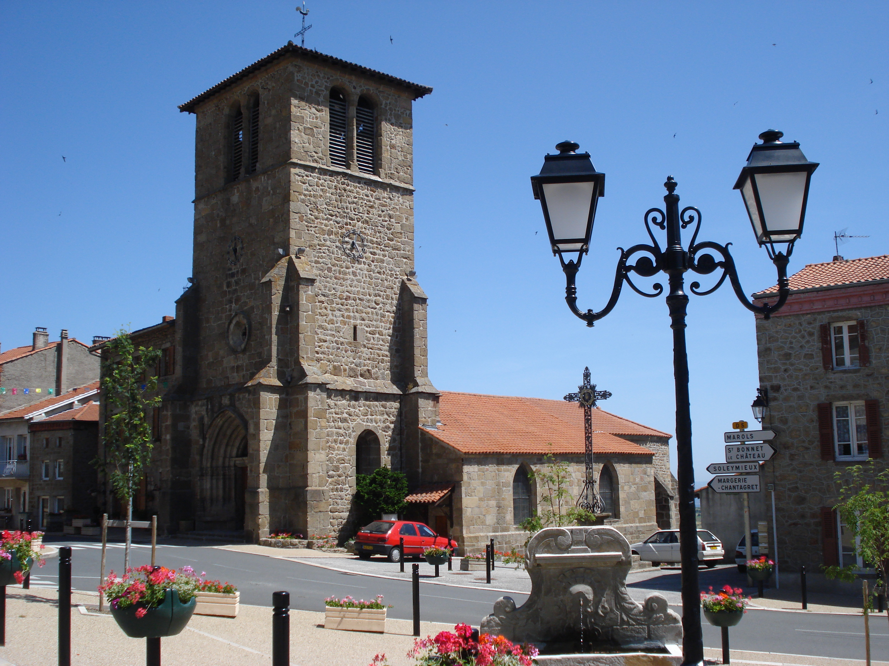 Saint-Jean-Soleymieux, church at Saint-Jean.